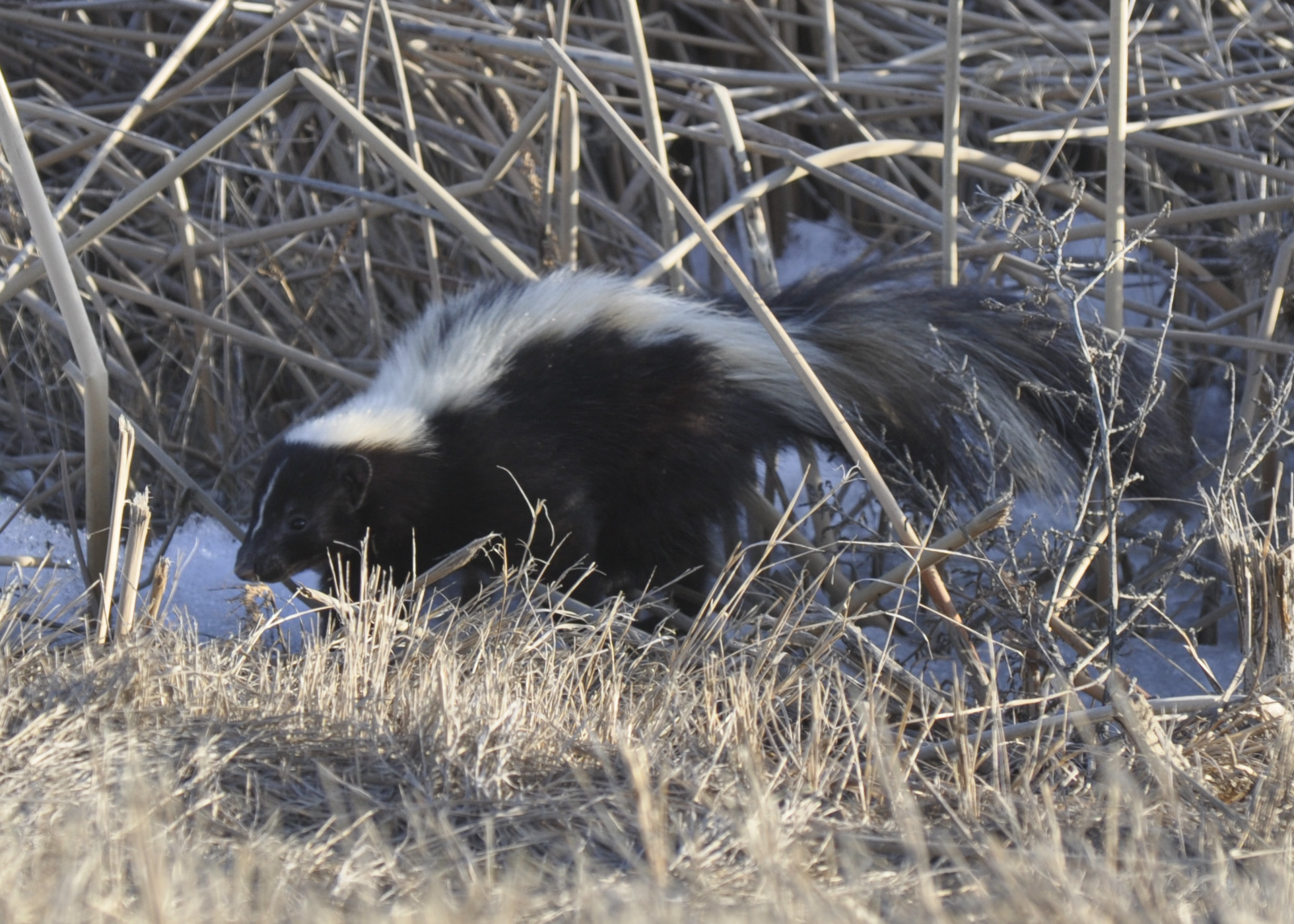 Category: Other Wildlife Photo Credit: V. Shearer